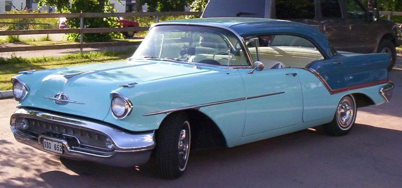 Oldmobile Super 88 Holiday sedan 1957